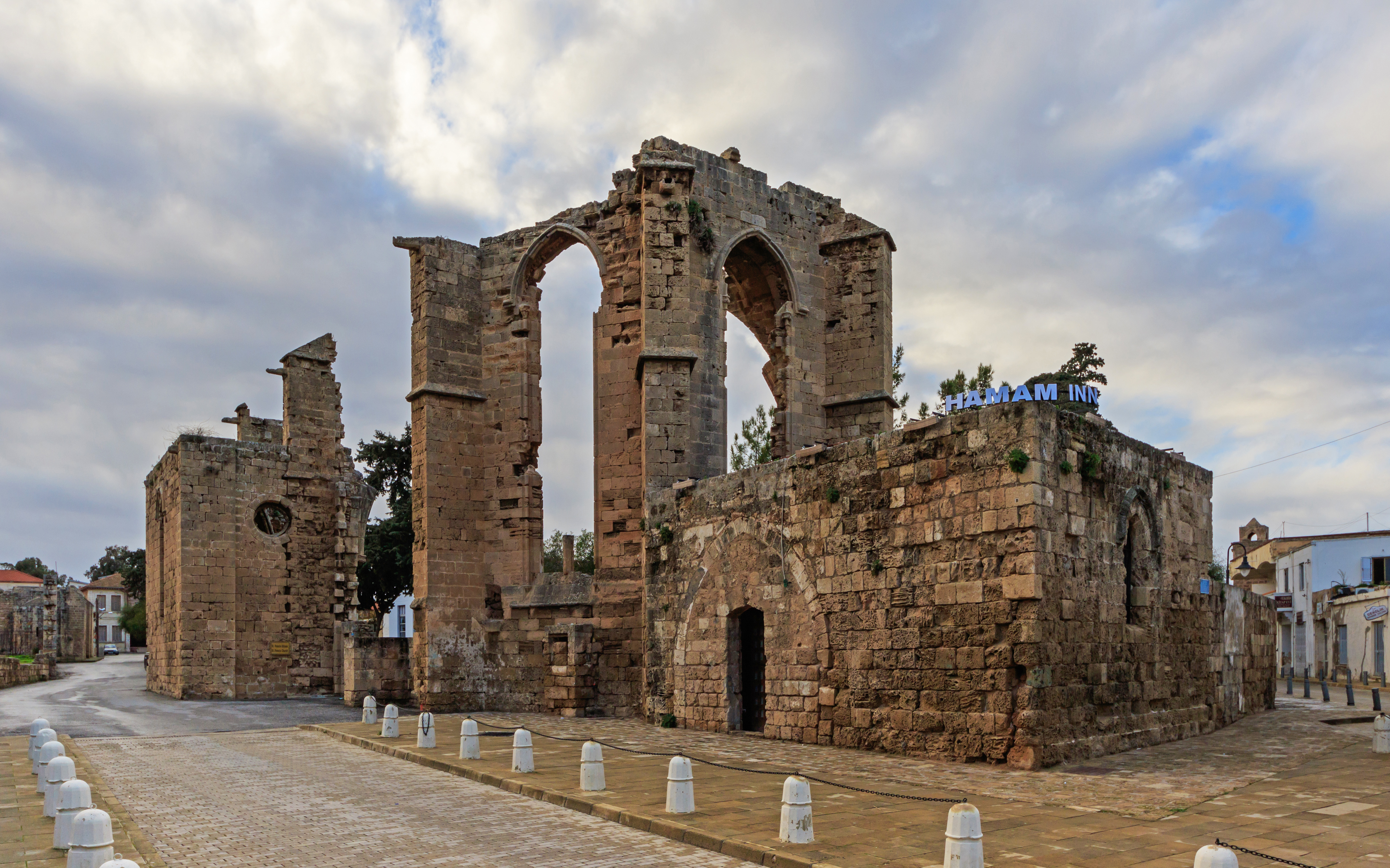 Ruin of Franciscan Church in Famagusta, Cyprus